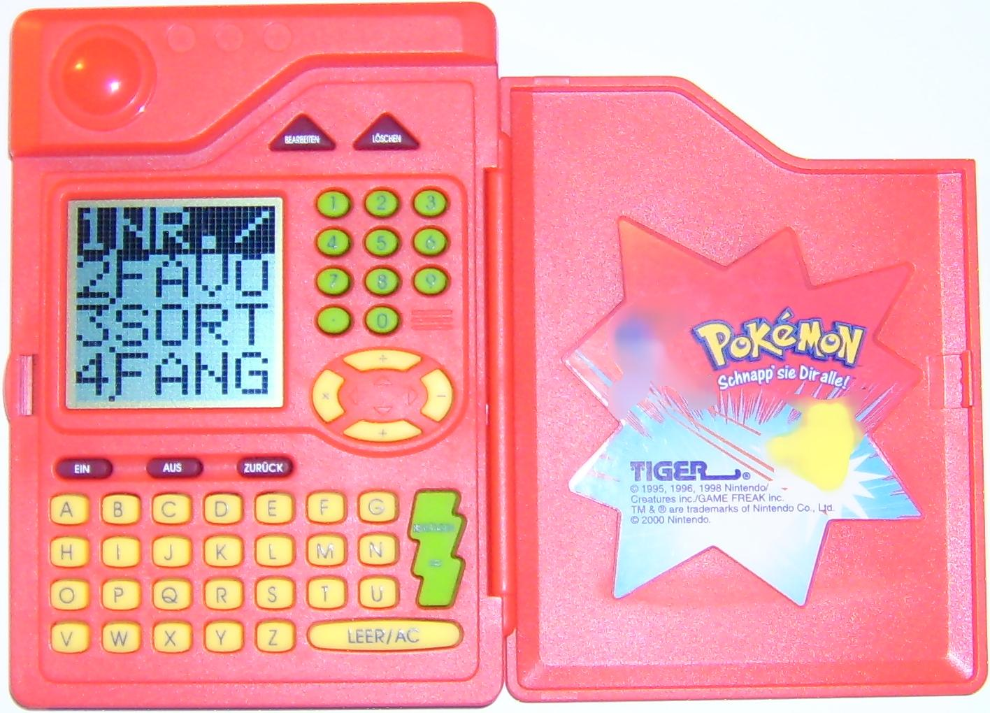 The Pokédex (German version), merchandising to the Pokémon franchise. A small computer, which contains data for 151 Pokémon as well as more features including a calculator. Manufactured in about 2000 by the American company Tiger Electronics.